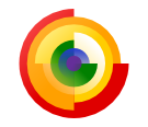 The official logo of the Definition of Free Cultural Works